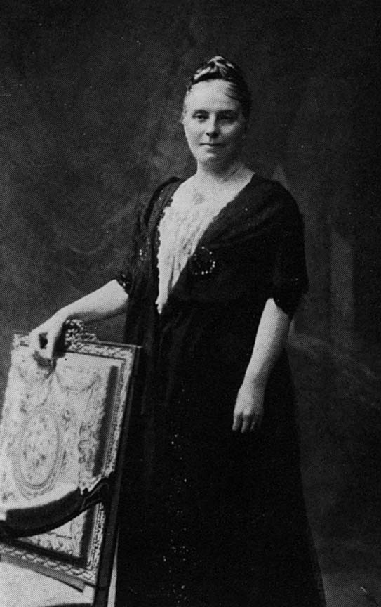 Julie Siegfried (1848-1922), president of the National Council of French Women from 1912 to 1922.